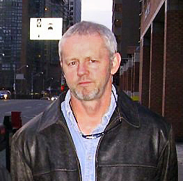 American actor David Morse